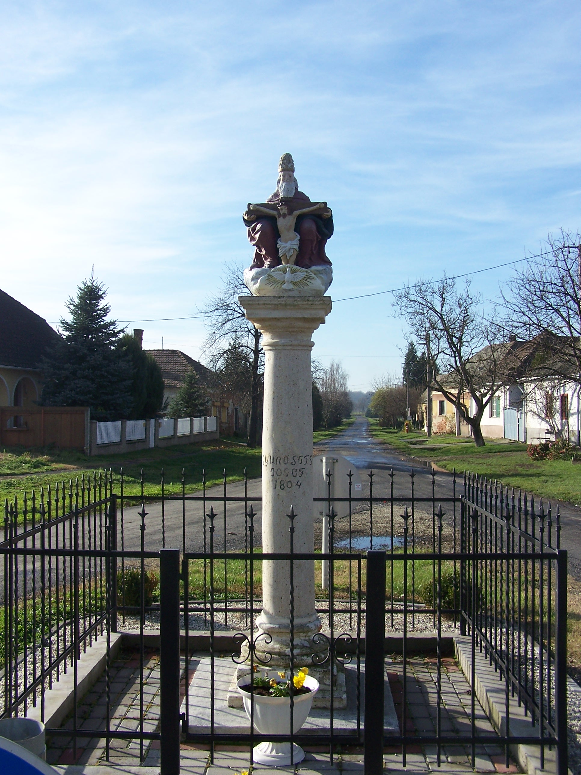 Statue of the Holy Trinity, Maglóca, Hungary This is a photo of a monument in Hungary. Identifier: 4508